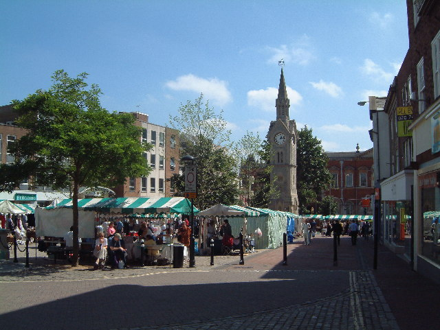 Market Square - Aylesbury. Looking south from Bourbon Street on Market Day